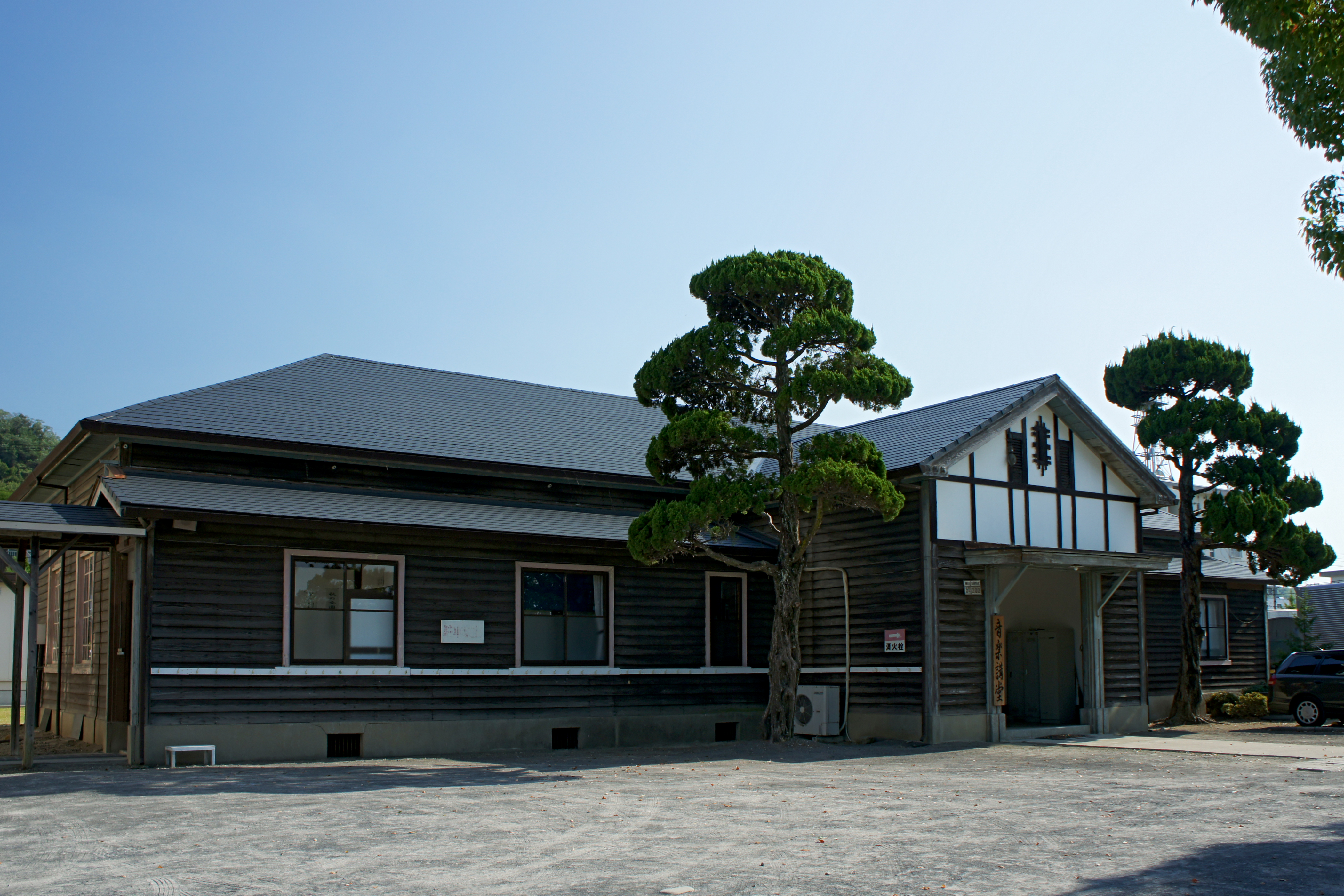 The Museum of JGSDF Camp Zentsuji in Zentsuji City, Kagawa prefecture, Japan